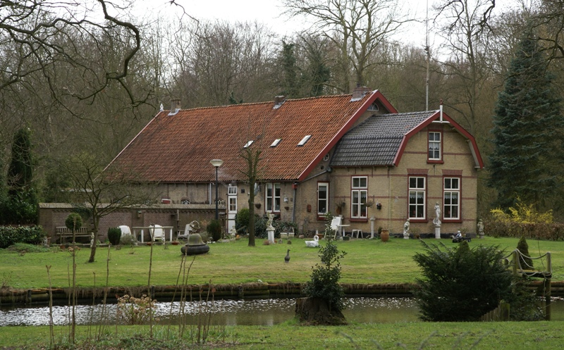 National monument no 530045 - Farm "De Schaapskooi", Rockanje, The Netherlands.